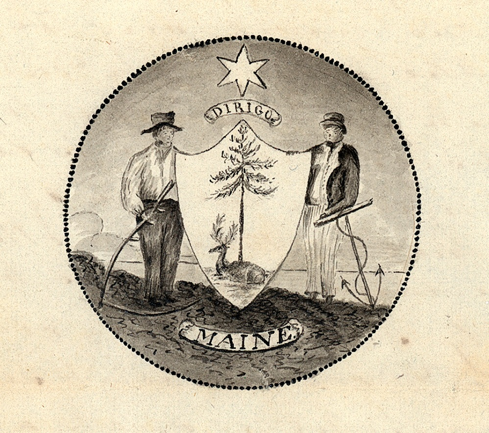 First proposed Maine State Seal Design by Dr. Benjamin Vaughn; rejected by the committee for various reasons.